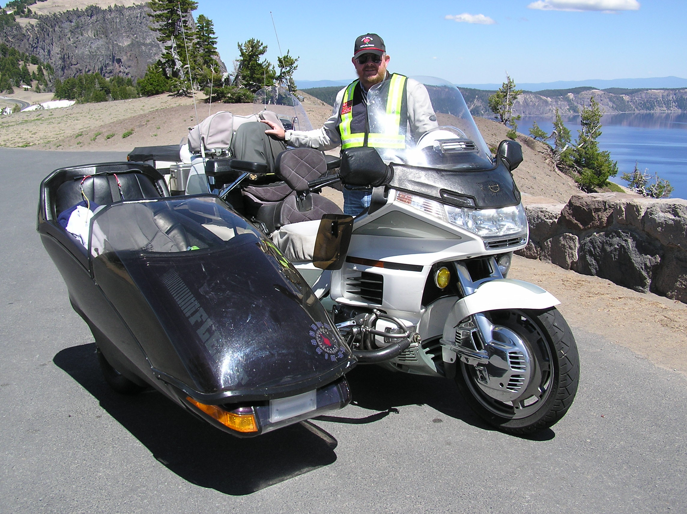 John Goff at Crater Lake with his Flexit sidecar.